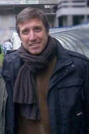 Spanish TV channel director and former clown Emilio Aragón.